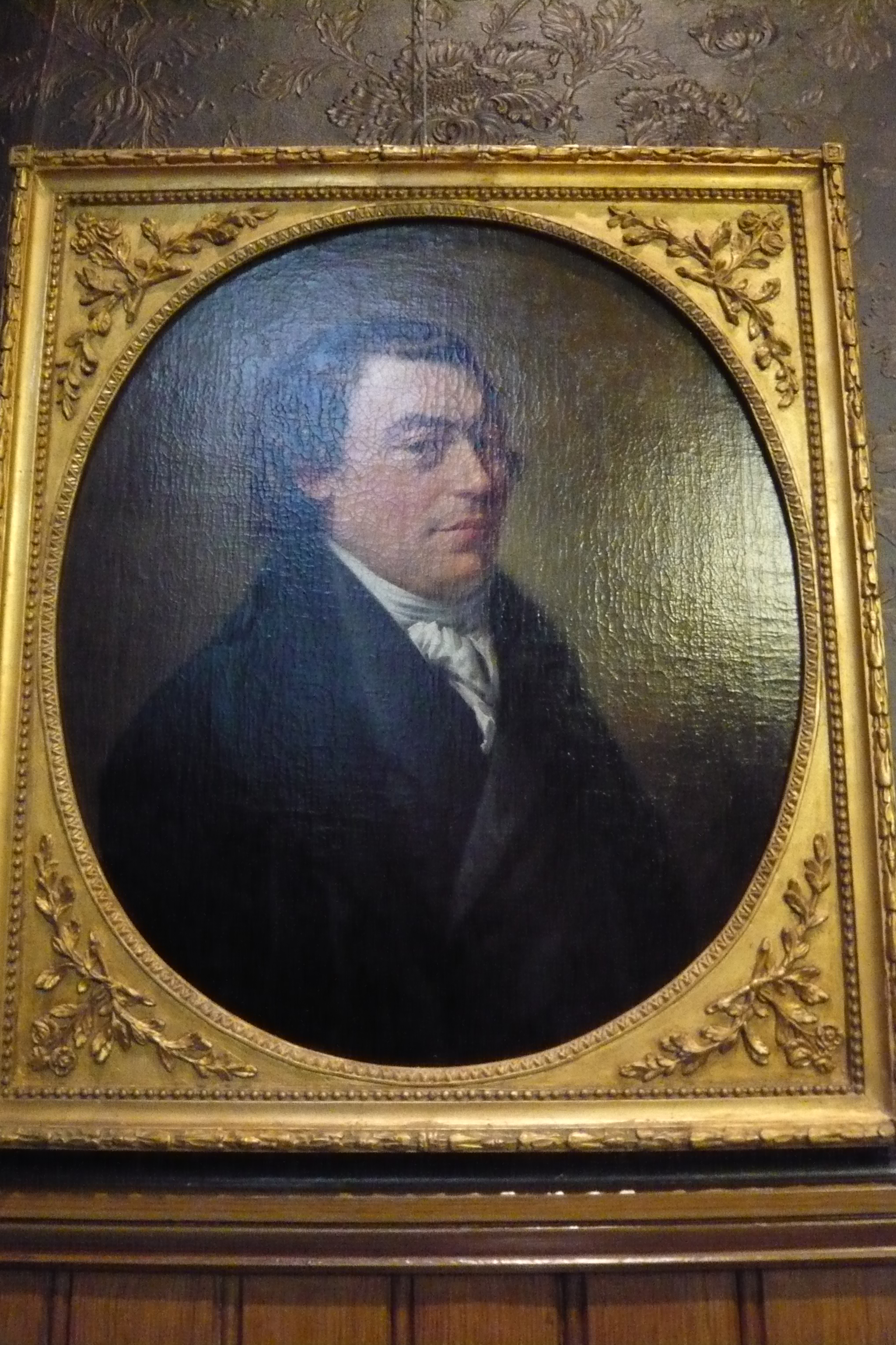 Portrait of the bookseller, novellist and poet Adriaan Loosjes, dated 1796